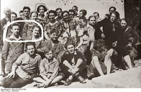 Herbert and Marianne Cohn/ Baum before they married in 1926 or 1927. KJVD photo from 1926/27 they are circled in white. Olga Benario is circled in gray.